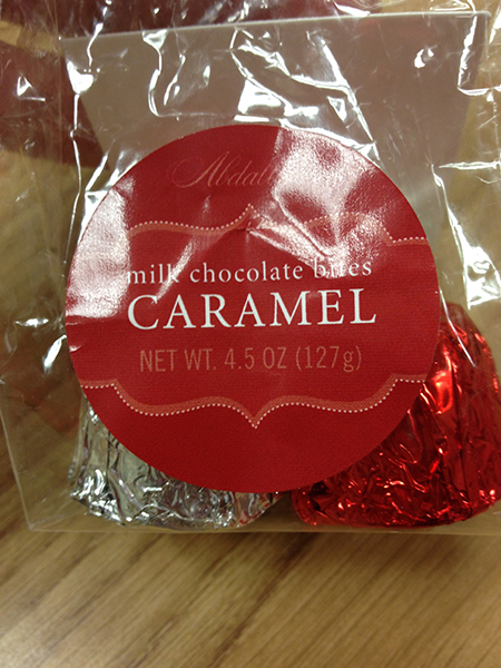 December 4, 2014 – Product Recall – Abdallah Candies Announces the Voluntary Recall of Holiday Caramel Bites. For additional information, please refer to the company issued press release available on FDA’s web site at .